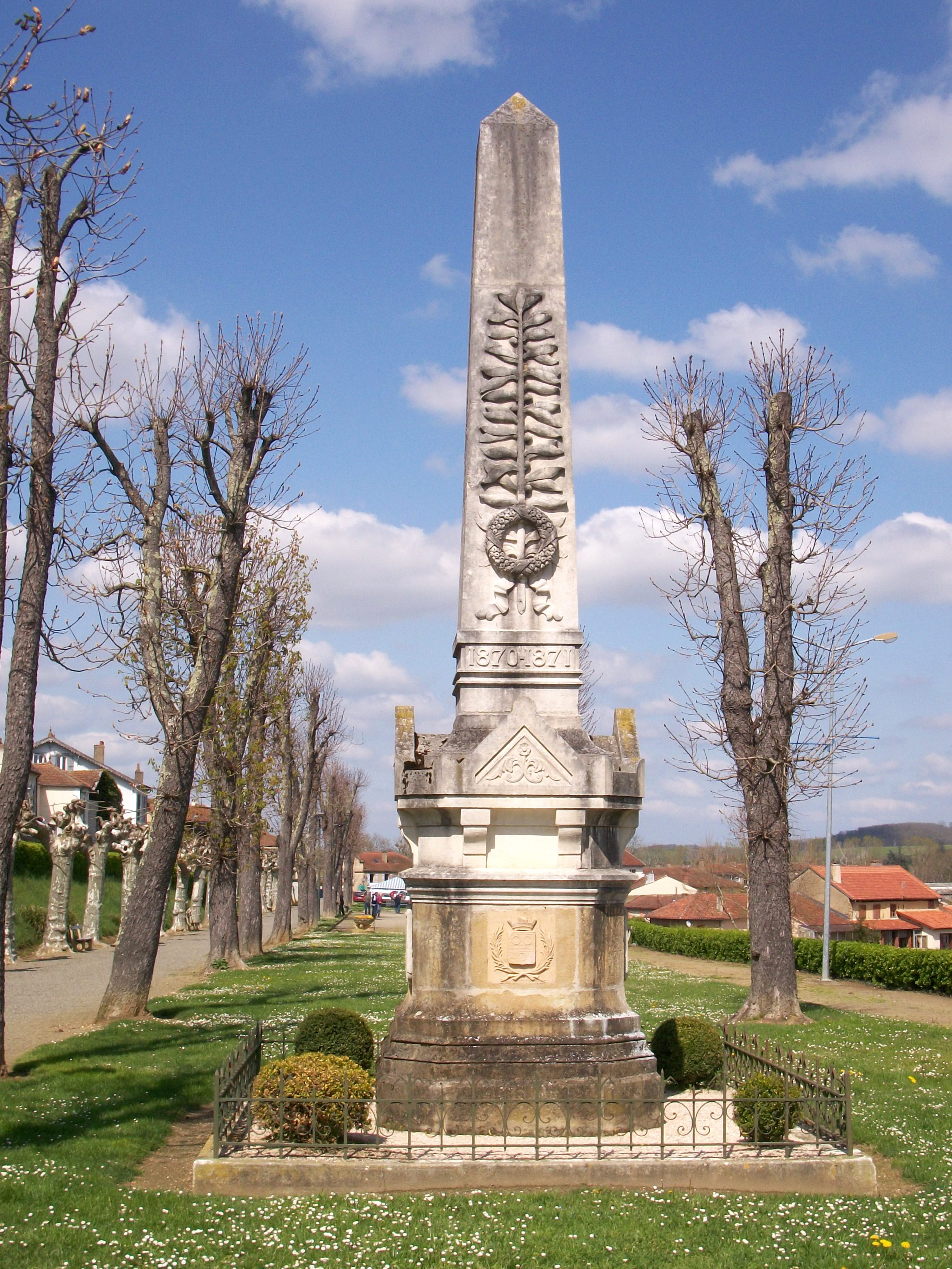 1870 war memorial, Charles-de-Gaulle Alley, Mirande, Gers, France